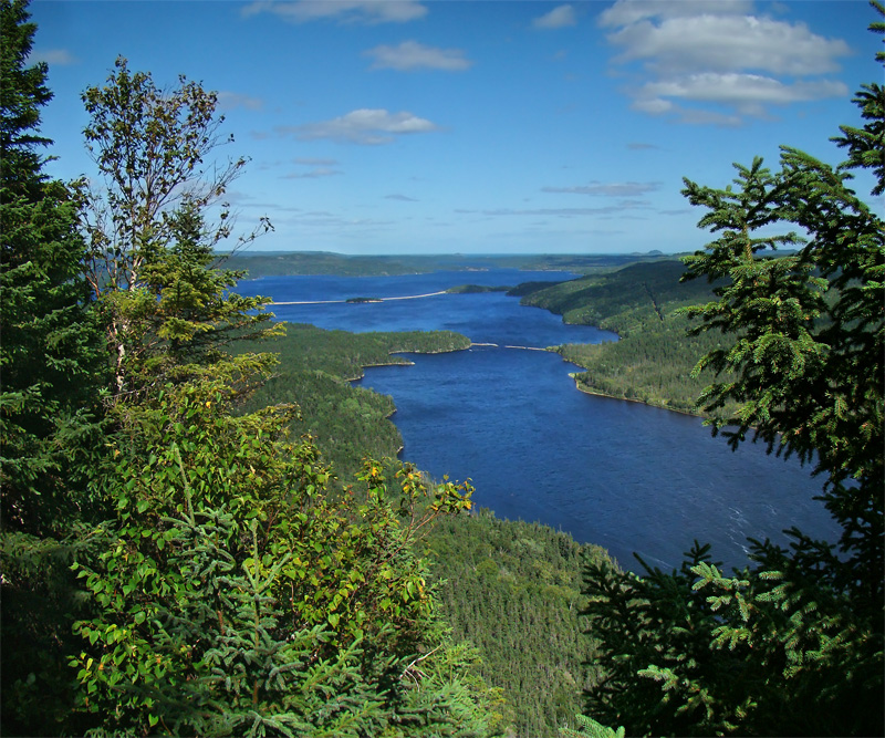 Terra Nova National Park, Central Newfoundland, Canada. View of Alexander Bay from the Malady Head hiking trail.